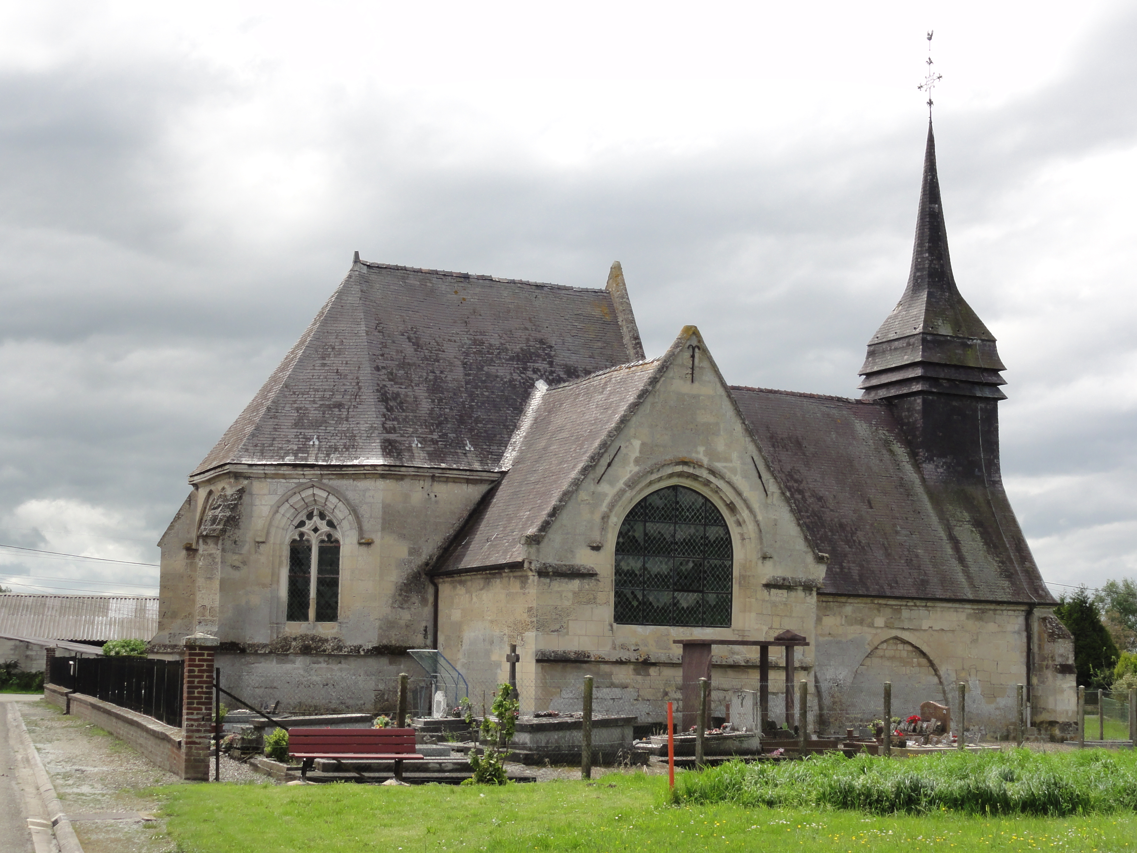 Andelain (Aisne) Église Saint-Denis